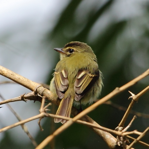 Large-headed Flatbill at Intervales State Park - SP - Brazil